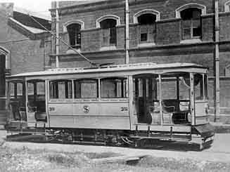 View of a Singapore 3rd class tram.